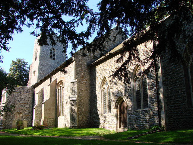 The church of All Saints, Gimingham, Norfolk, England.